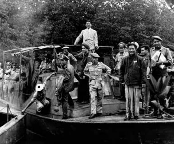 A smiling President Ngo Dinh Diem on a Vietnam Navy vessel observes an operation near Saigon with Vietnamese and foreign military, undated.